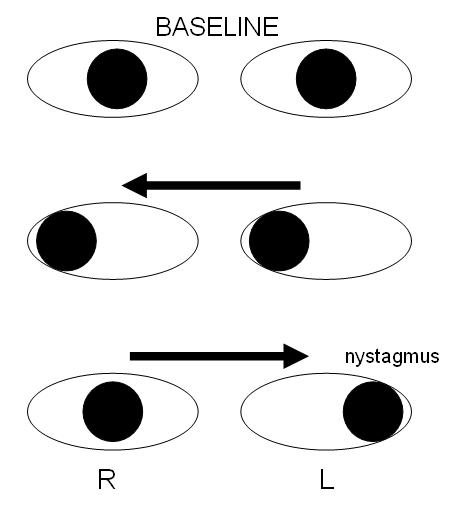 Schematic of R INO